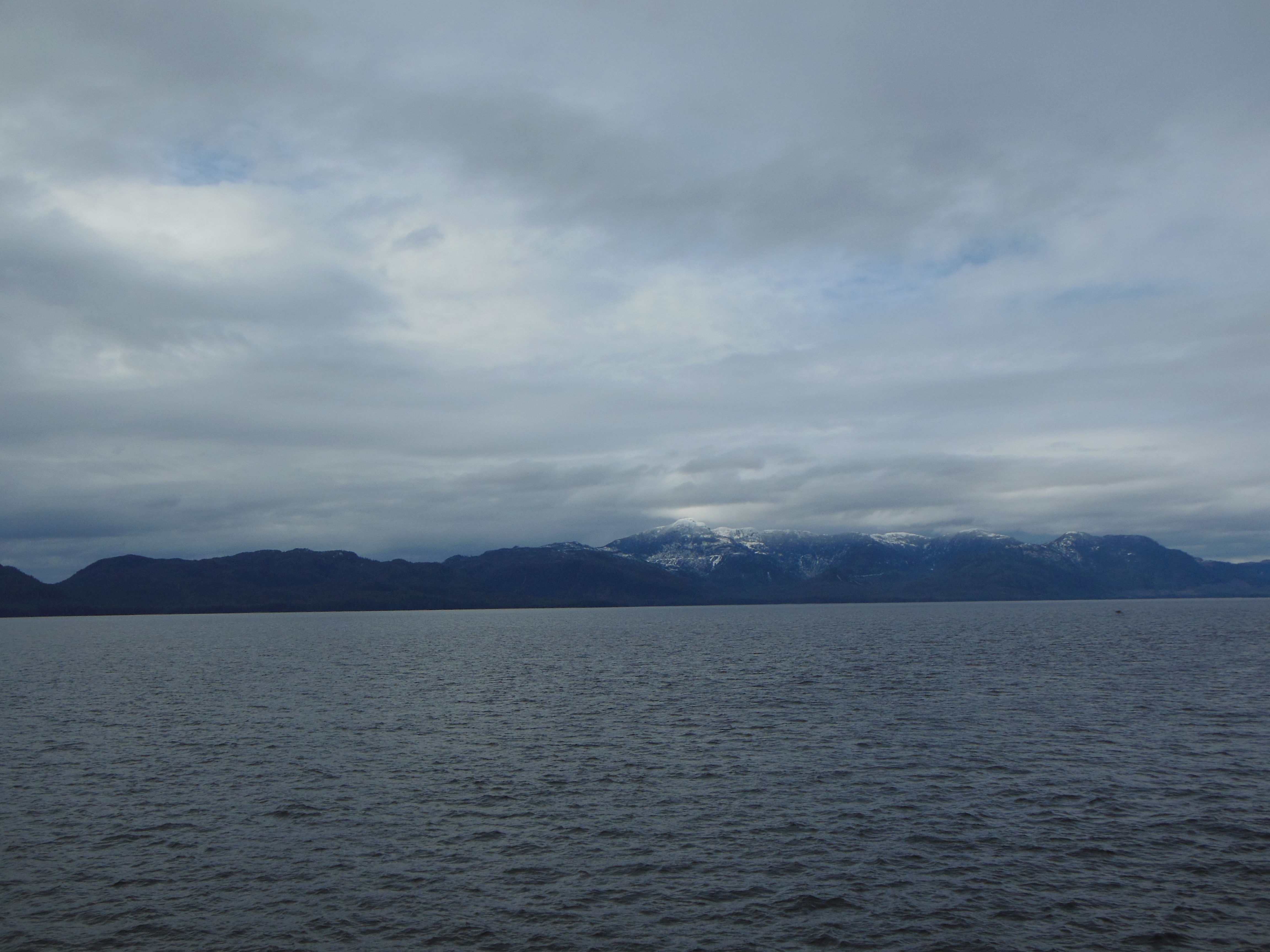 Part of the Kasaan Peninsula on Prince of Wales Island, Alaska, as seen from the Clarence Strait